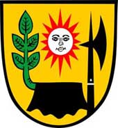 Coat of Arms of Oberbösa